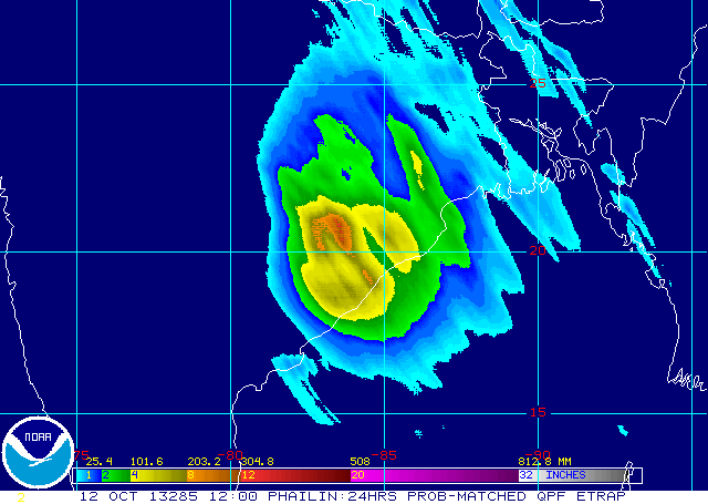 eTRAP satellite imagery of accumulated rainfall from Cyclone Phailin over 24 hour period.